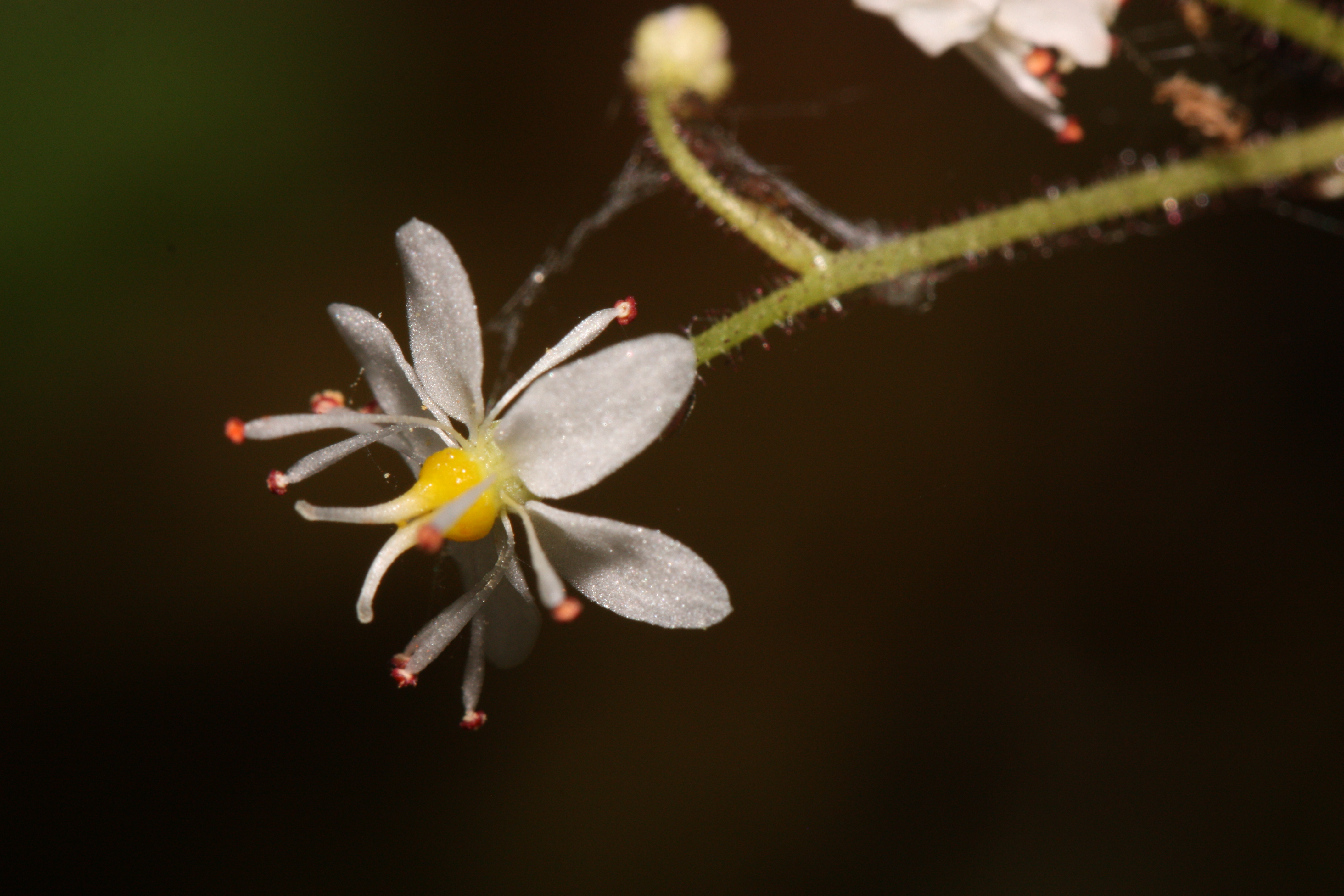 Wood Saxifrage, Woodland Saxifrage, Merten's Saxifrage Viewpoint location: Rainie Falls Trail Rogue Wild and Scenic River Viewpoint elevation: 212 meter (696 ft) Location source: Garmin GPSmap 60CSx Location Datum: WGS84